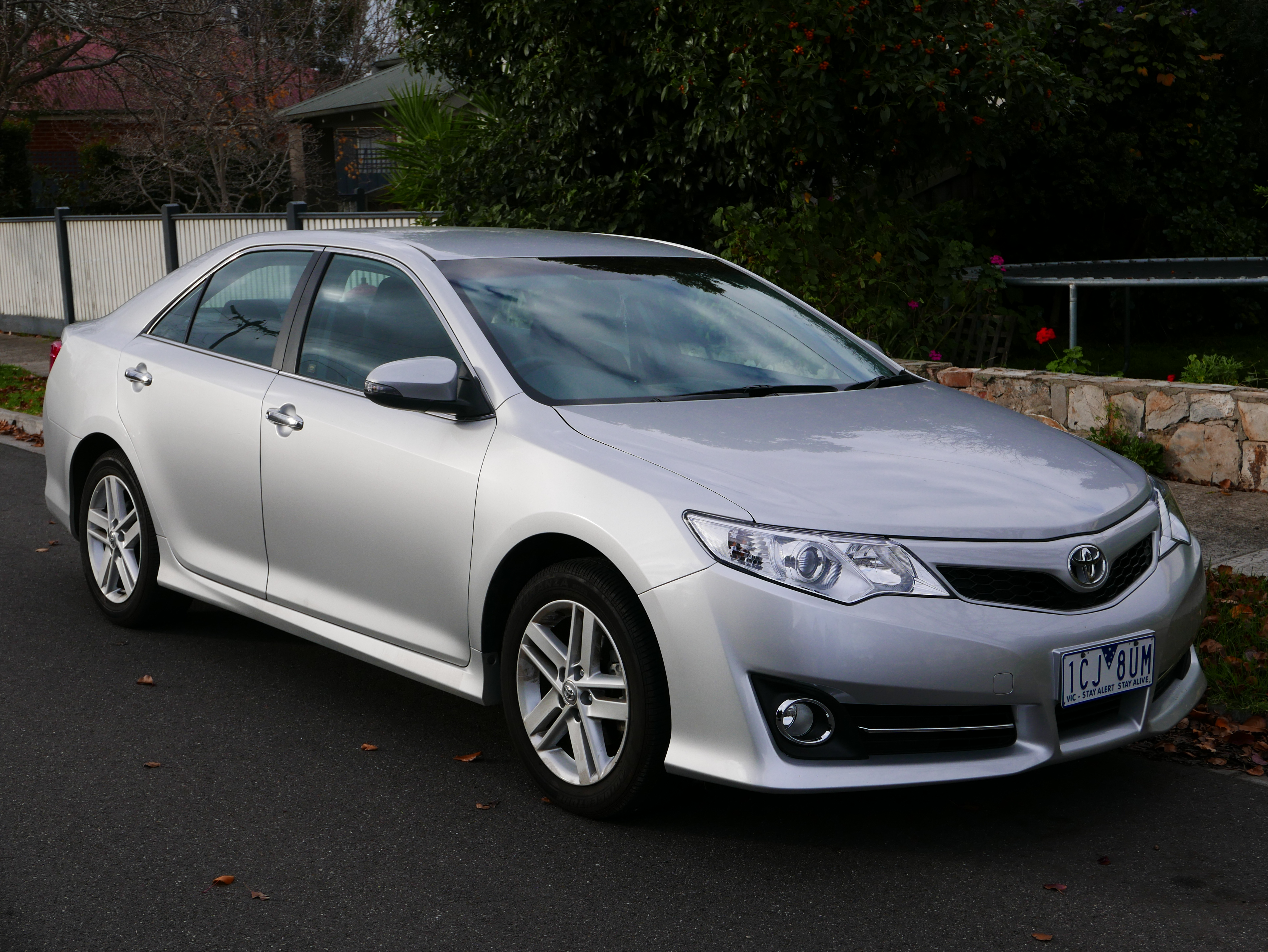 2014 Toyota Camry (ASV50R) Atara S sedan. Photographed in Northcote, Victoria, Australia. Vehicle registration enquiry resultsJurisdictionVictoriaRegistration1CJ8UMChassis code6T1BF3FK80X053005Engine code2ARU159584Compliance date2014-06Year of manufacture2014